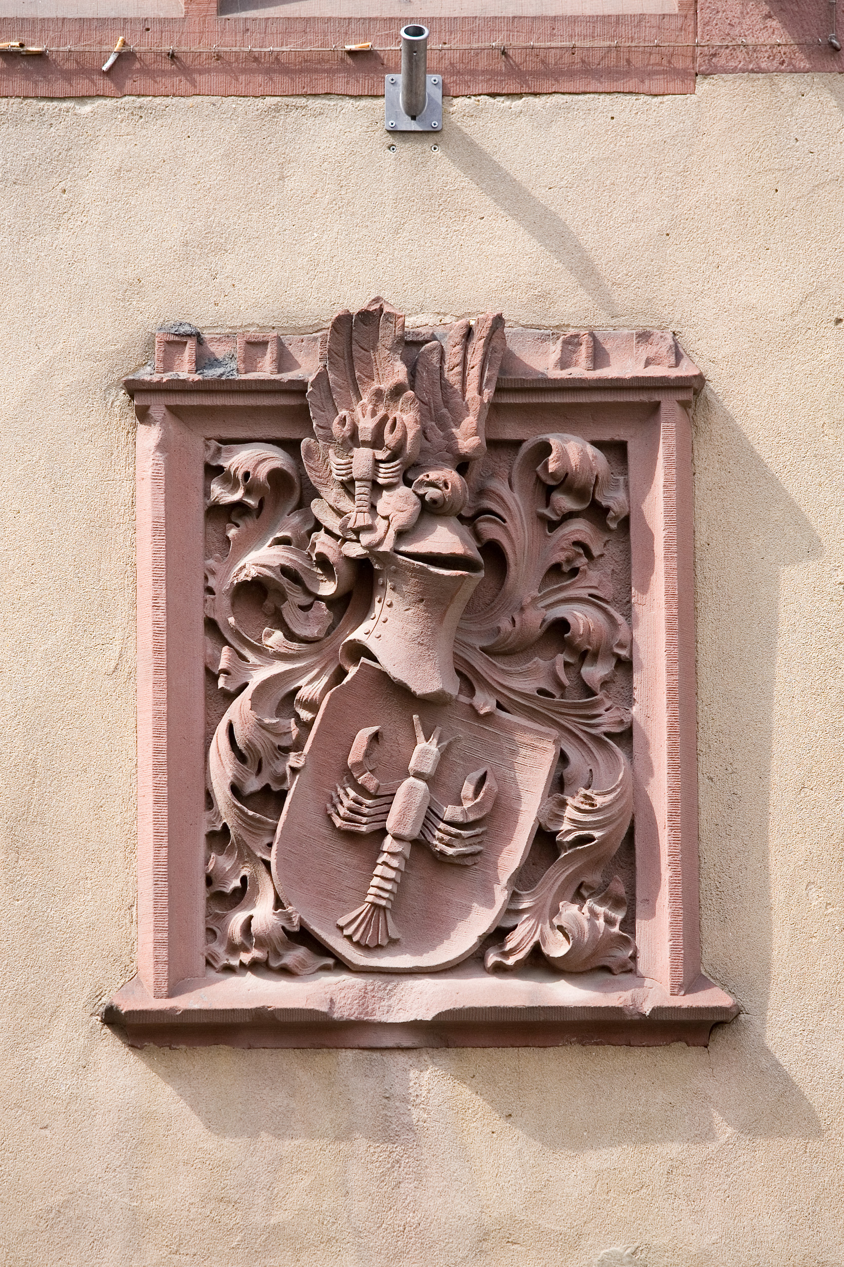 Frankfurt on the Main: Steinernes Haus (Stone House) at the Markt (Market), detail of the slag with the coat of arms of the family Melem